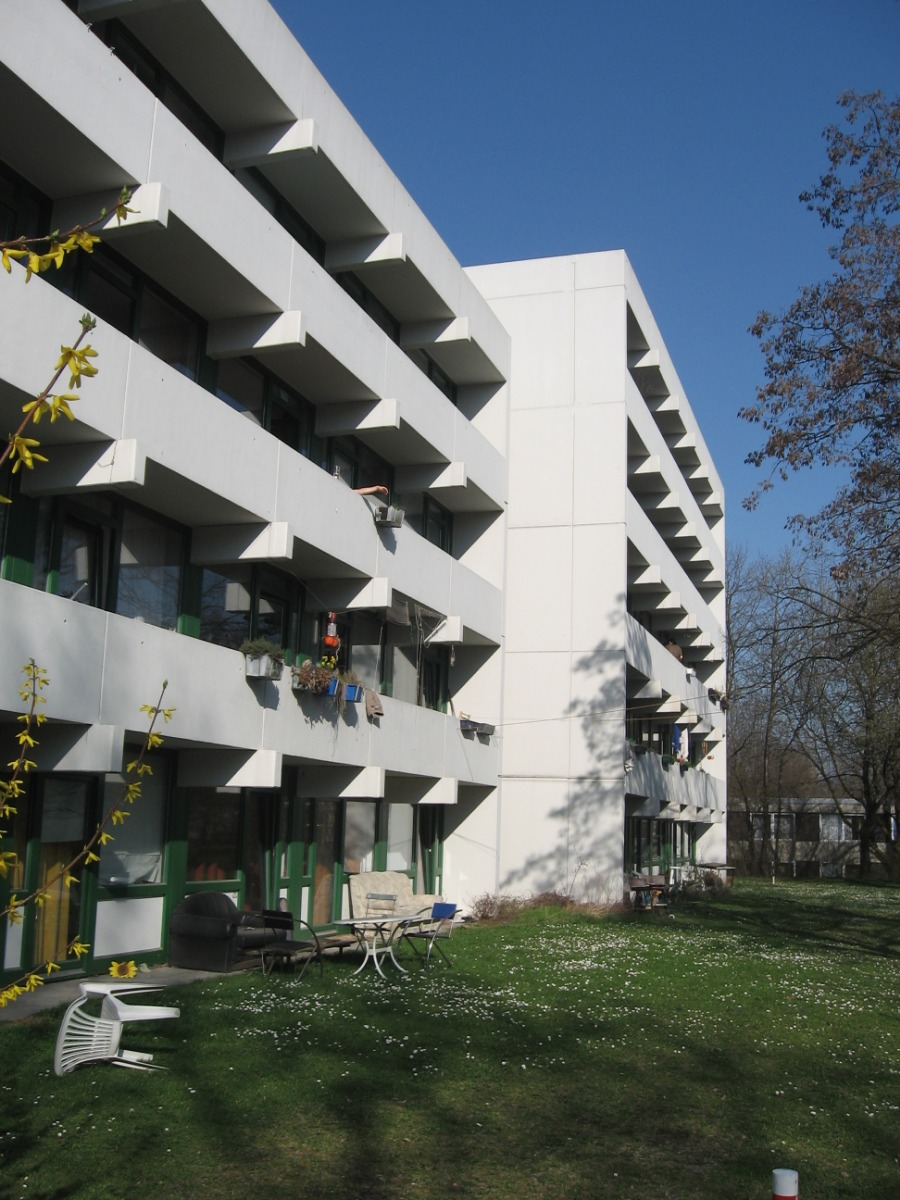 Studentenstadt Freimann in Munich